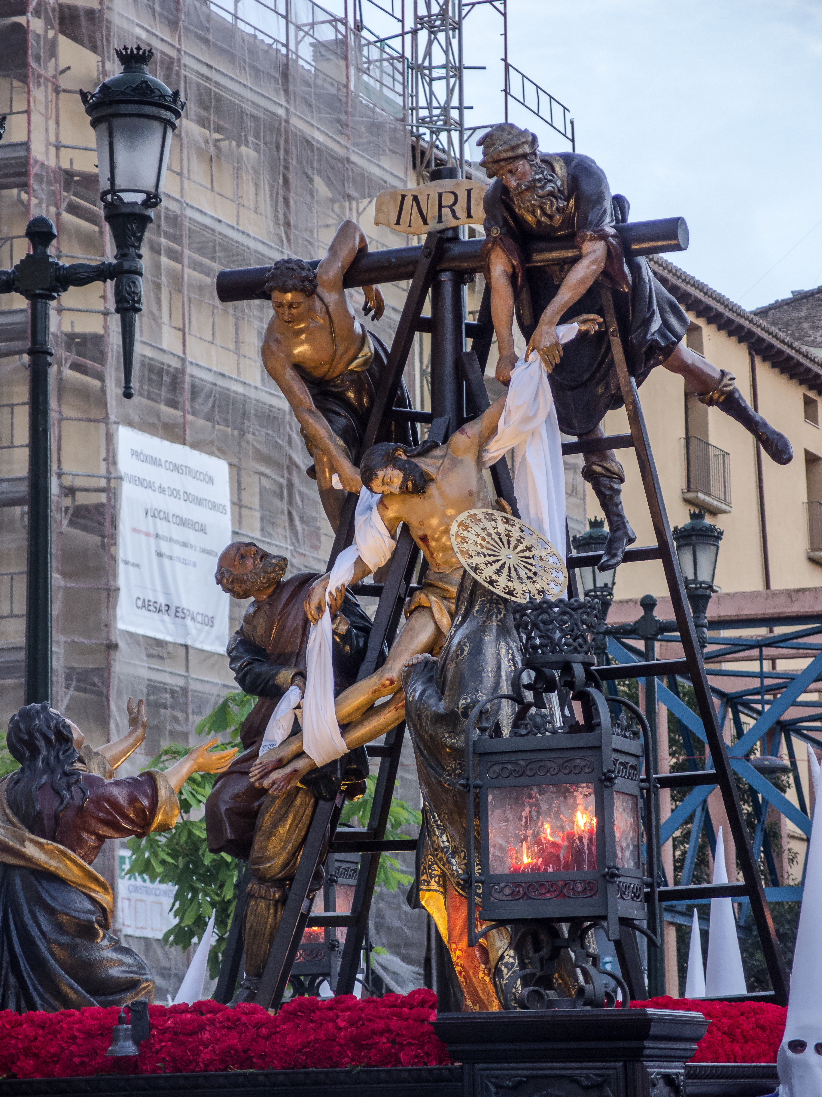 Procesión del Santo Entierro. Cofradía del Descendimiento. This is a photography of a Folklore festival in Spain (Wikidata id Q9075892).